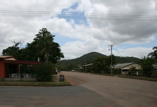 Coen, Cape York, Queensland, Australia